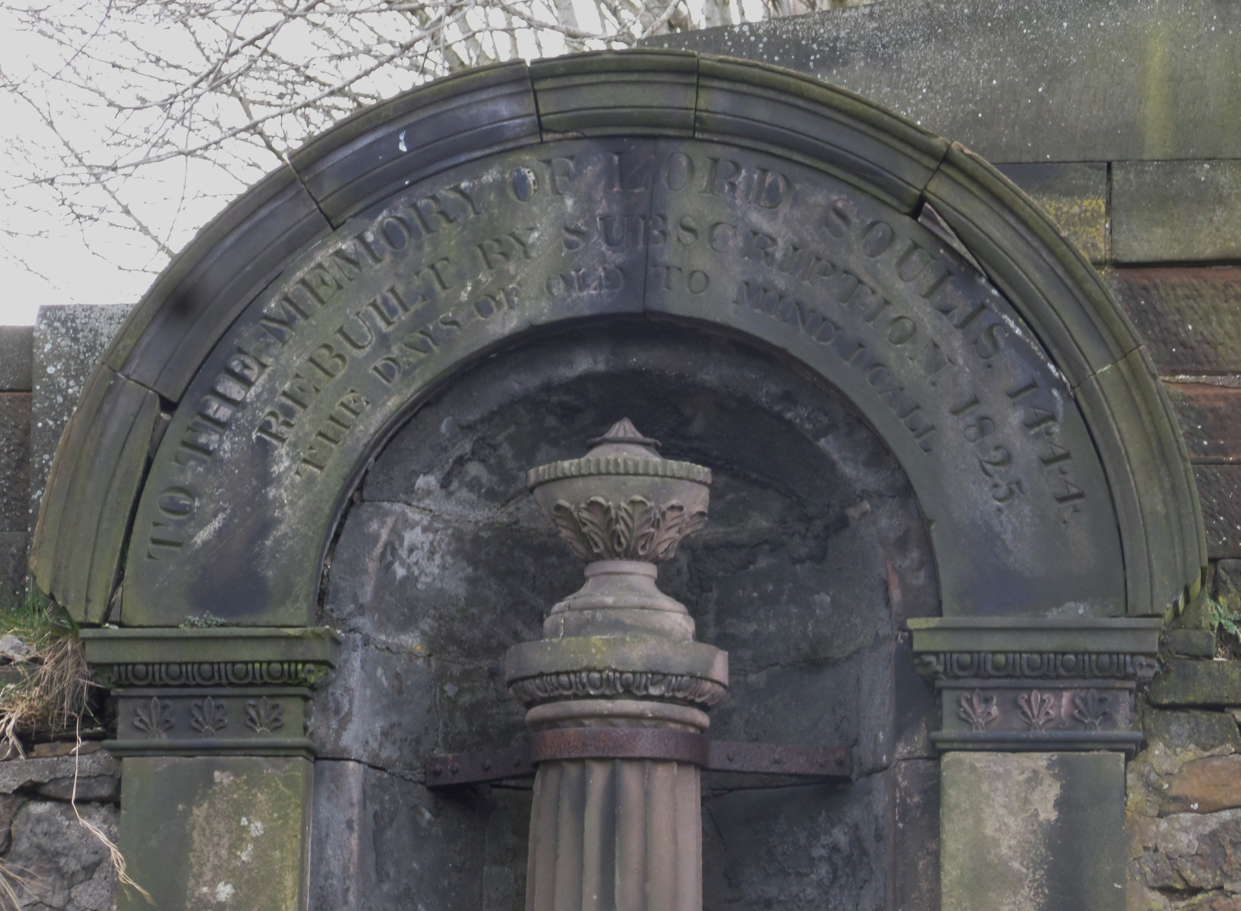 The Soulis Cross inscription, Old High Kirk, Soulis Street, Kilmarnock, Ayrshire